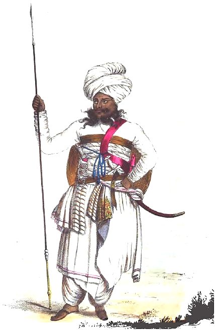 This Sketch was created by Mrs Postans in 1838 for her book Cutch:Random sketches of Western India